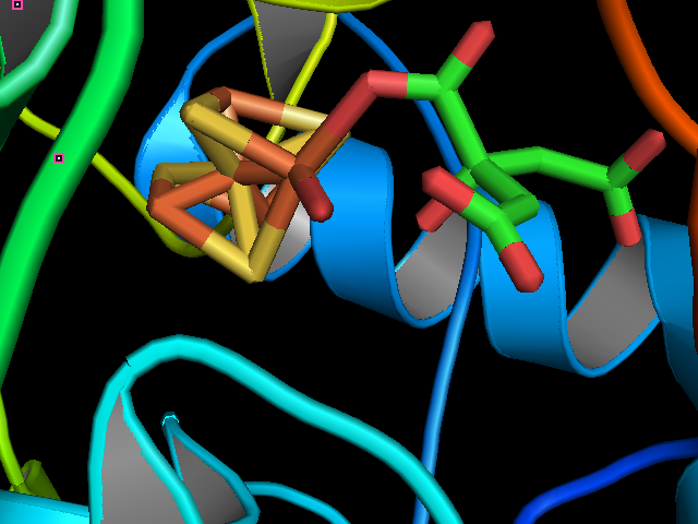 Pymol image created using PDB coordinates